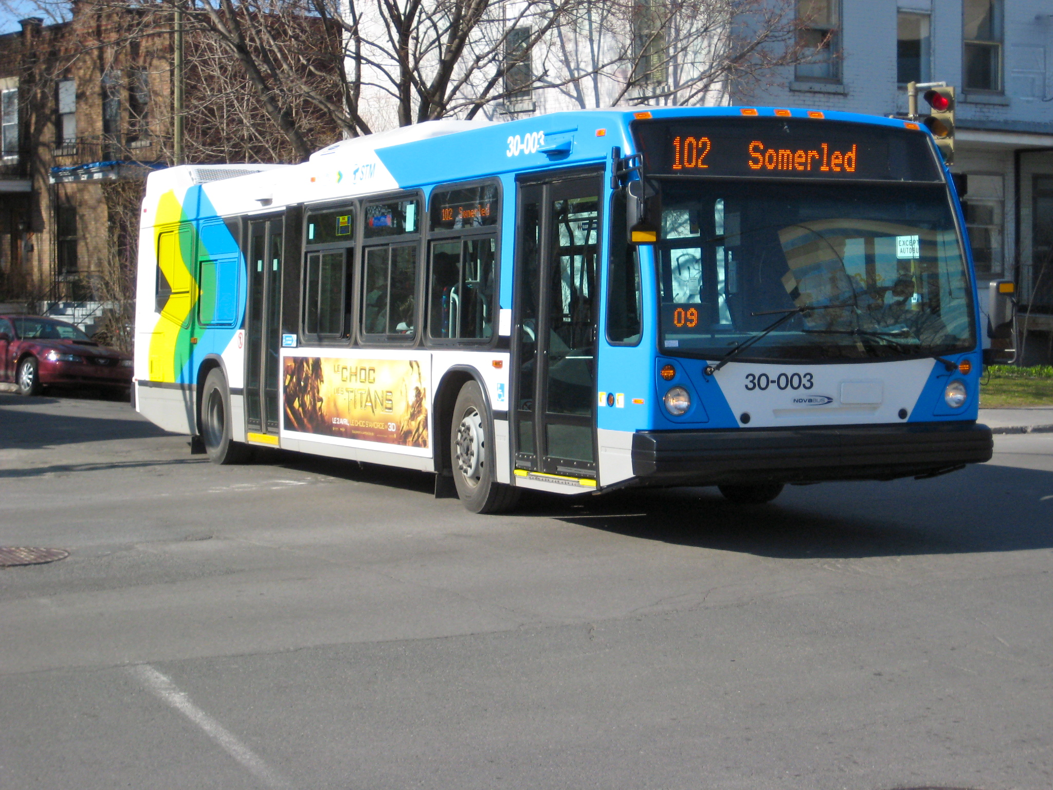 An STM Novabus 3rd generation bus operating on the 102 Somerled.jpg